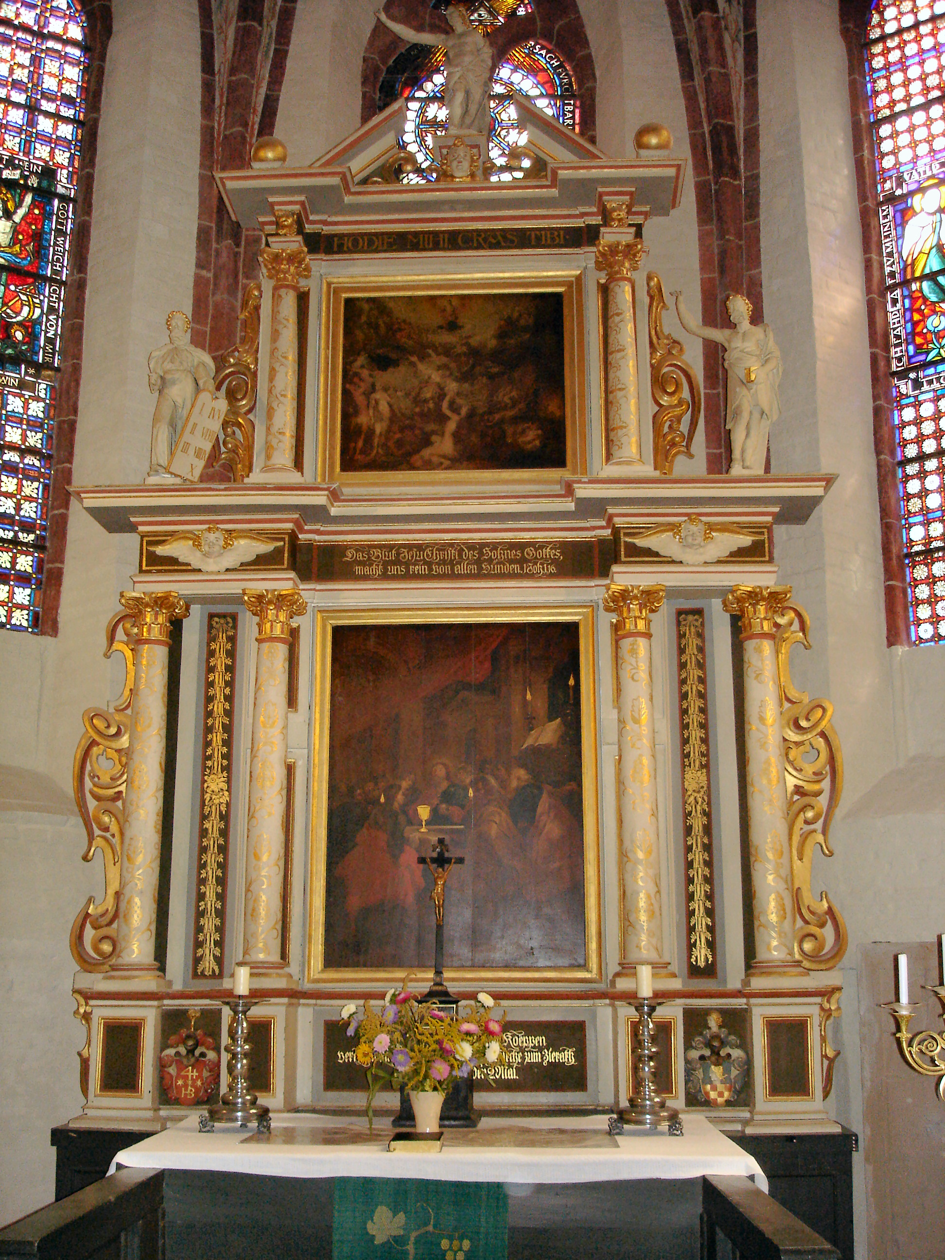 Church in Lenzen in Brandenburg, Germany